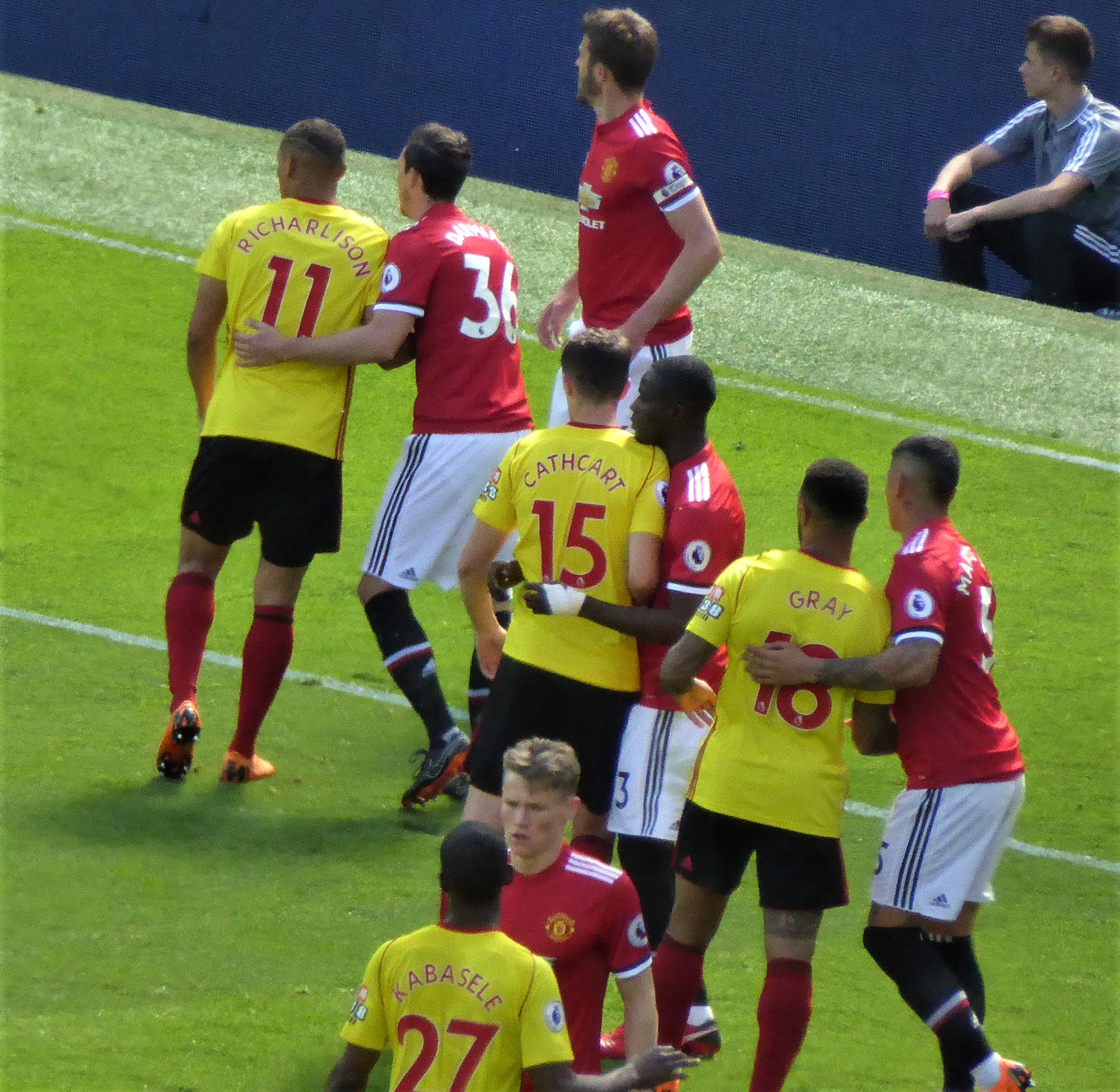 Manchester United v Watford (1-0), Premier League, Old Trafford, Metropolitan Borough of Trafford, Greater Manchester, England, 13 May 2018